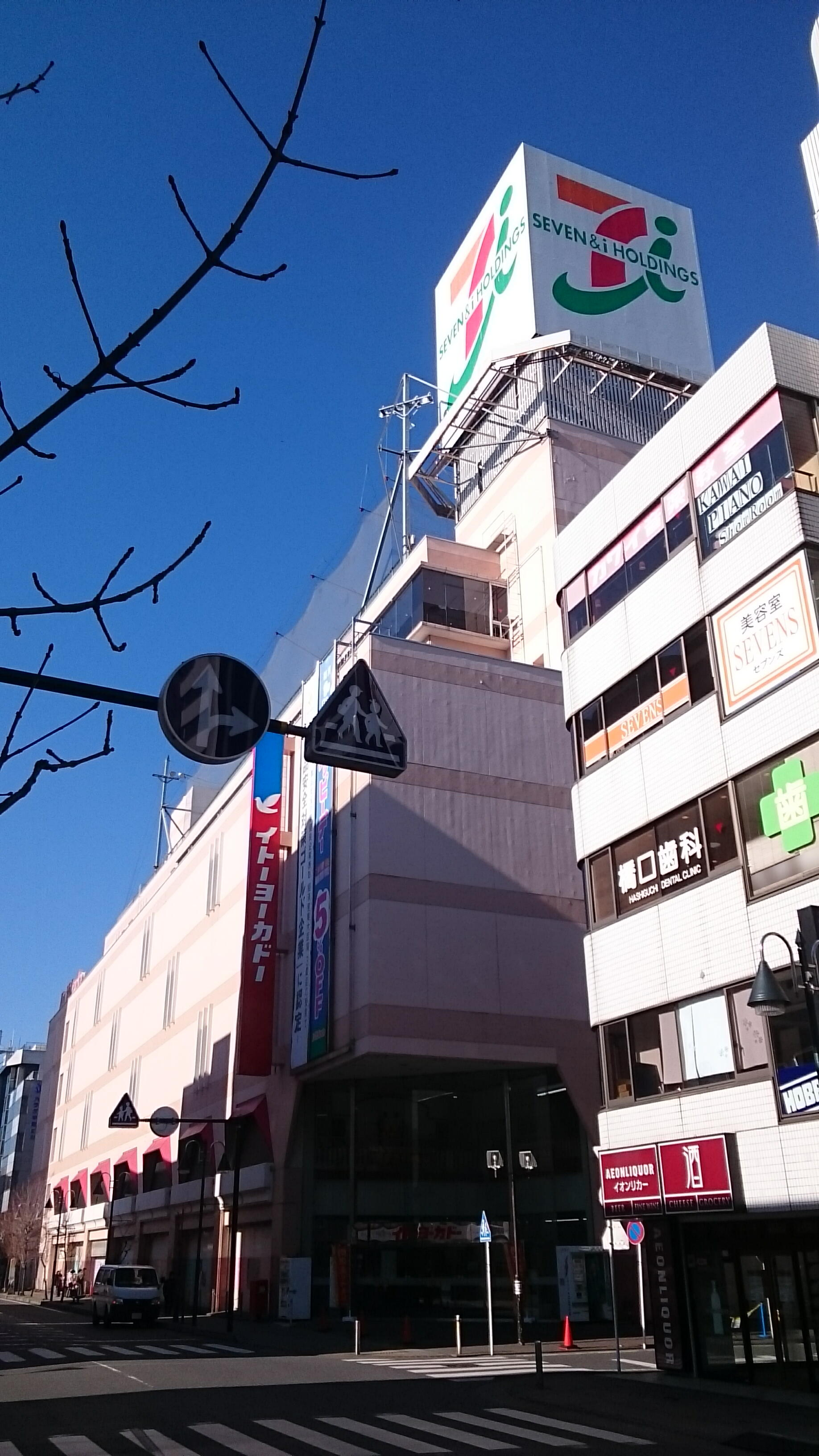 Ito Yokado Atsugi Store in February 14,2017. Atsugi, Kanagawa, Japan.